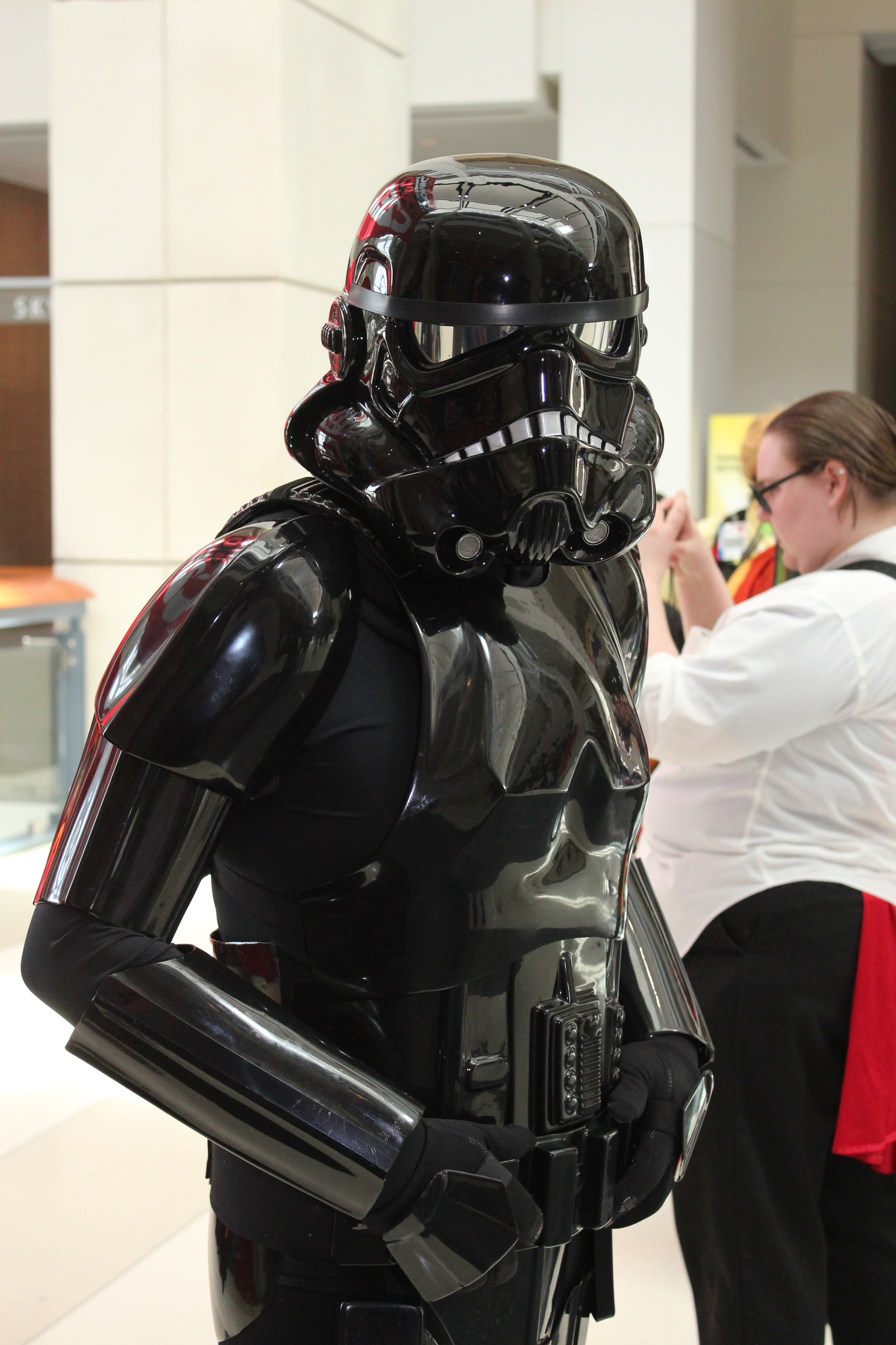 Cosplay at the 2013 Chicago Comic & Entertainment Expo (C2E2).